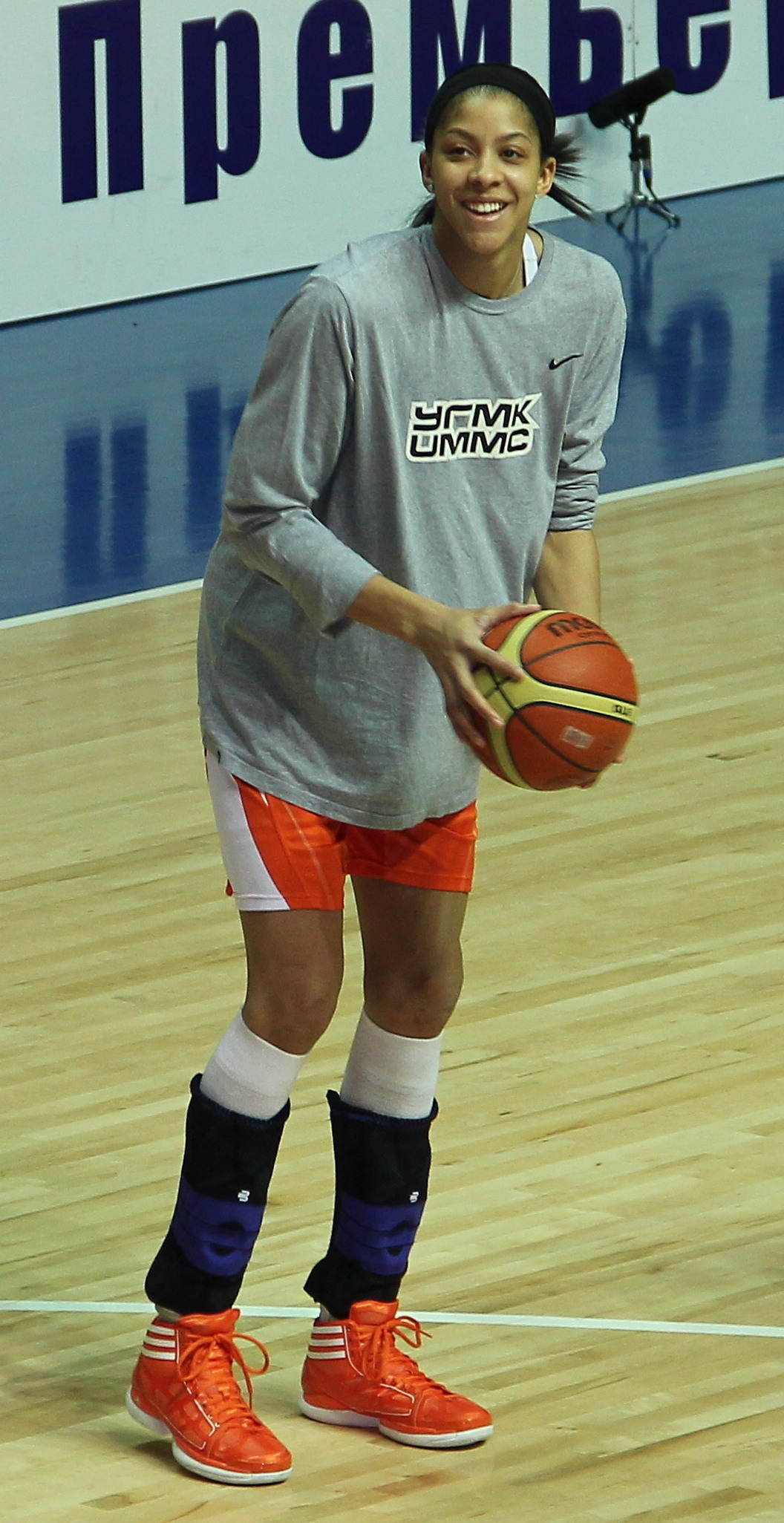 Russia, Vologda, Candace Parker in game «Vologda-Chevakata» vs «UMMC» (Yekaterinburg)